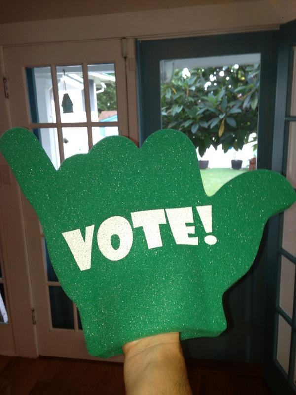 VOTE! I am fired up to visit our volunteers going house to house today. More than 400 statewide!